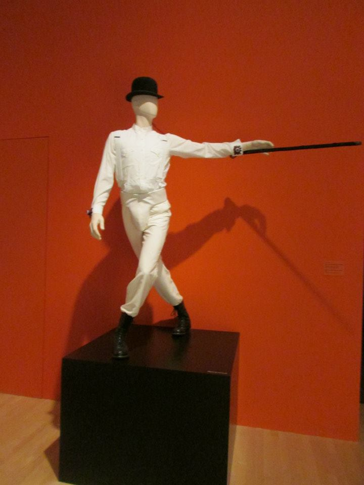 Suit from the film A Clockwork Orange by en: Stanley Kubrick. Exhibit at LACMA.